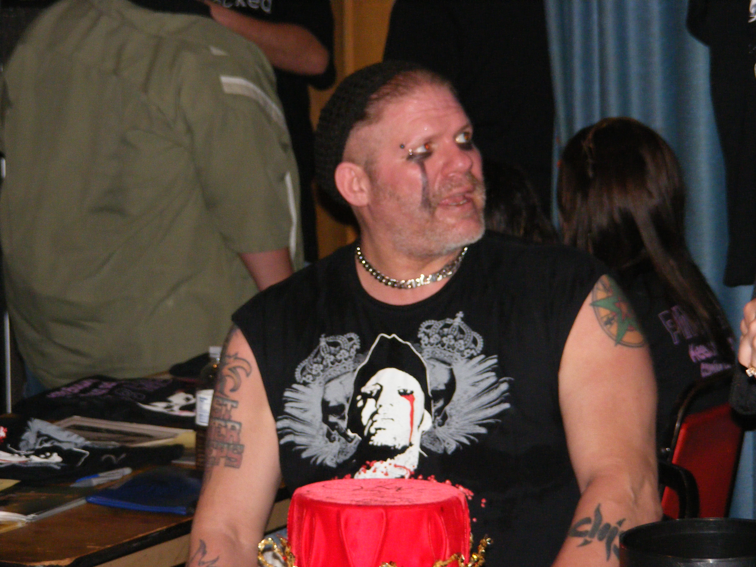 Professional wrestler Raven at a 2CW show in Syracuse on April 3, 2010.